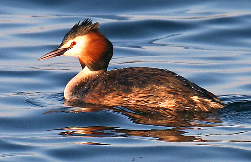 Great Crested Grebe